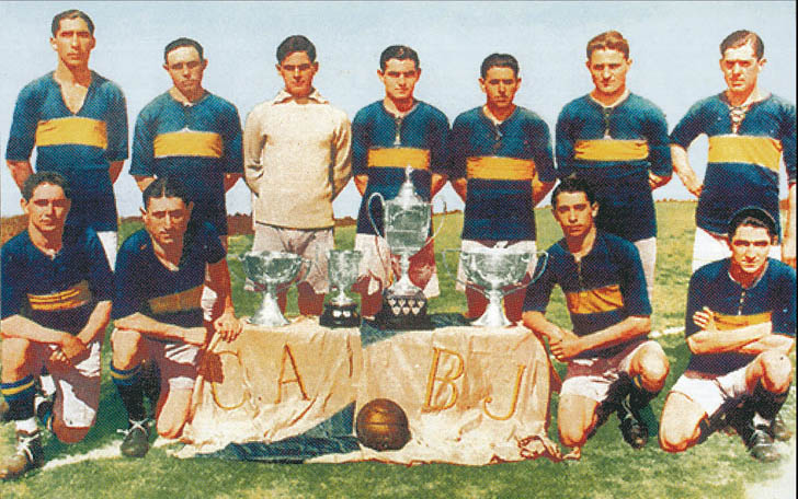 Boca Juniors team in 1919, posing with the four trophies won that year: Copa de Competencia Jockey Club, Copa Campeonato, Tie Cup Competition and Copa Dr. Carlos Ibarguren. The players are (stand): Ortega, Busso, Tesoriere, José Alfredo López, Mainardi, Cortella, Elli. (seated): Bozzo, Calomino, Garasini, Alfredo Martín.